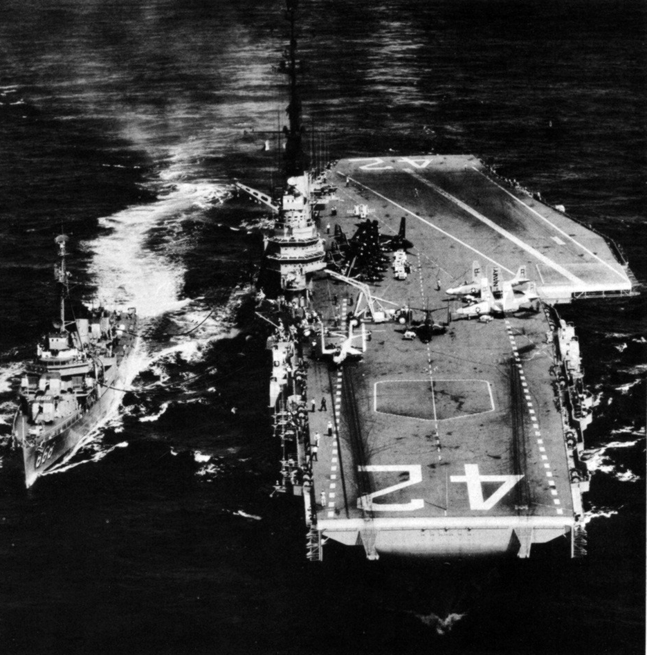 The U.S. Navy destroyer USS Clarence K. Bronson (DD-668) refueling from the aircraft carrier USS Franklin D. Roosevelt (CVA-42) firing during FDR´s voyage from the Puget Sound Naval Shipyard, Washington (USA), to her new homeport Mayport, Florida, following her SCB-110 modernisation. The FDR circumnavigated South America via Cape Hoorn from 4 June to 8 August 1956.